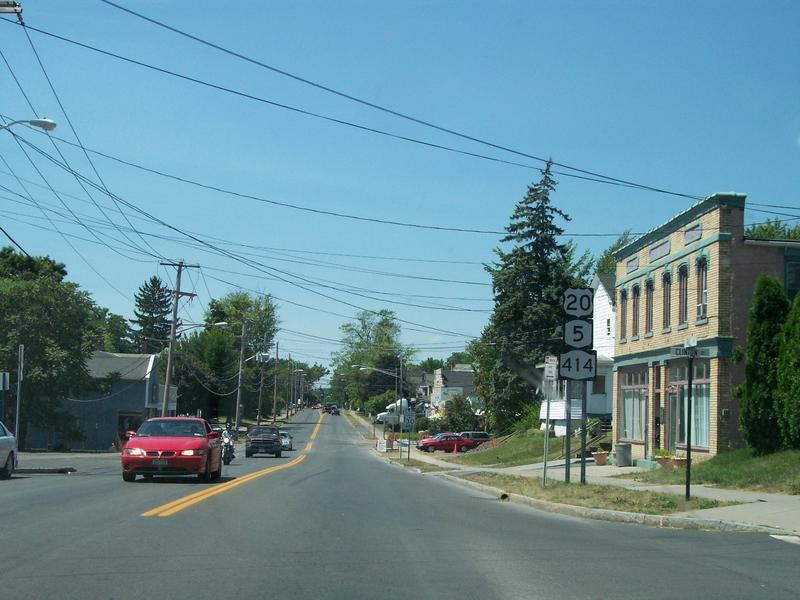 Westbound on U.S. Route 20, New York State Route 5 and New York State Route 414 in Seneca Falls, New York.